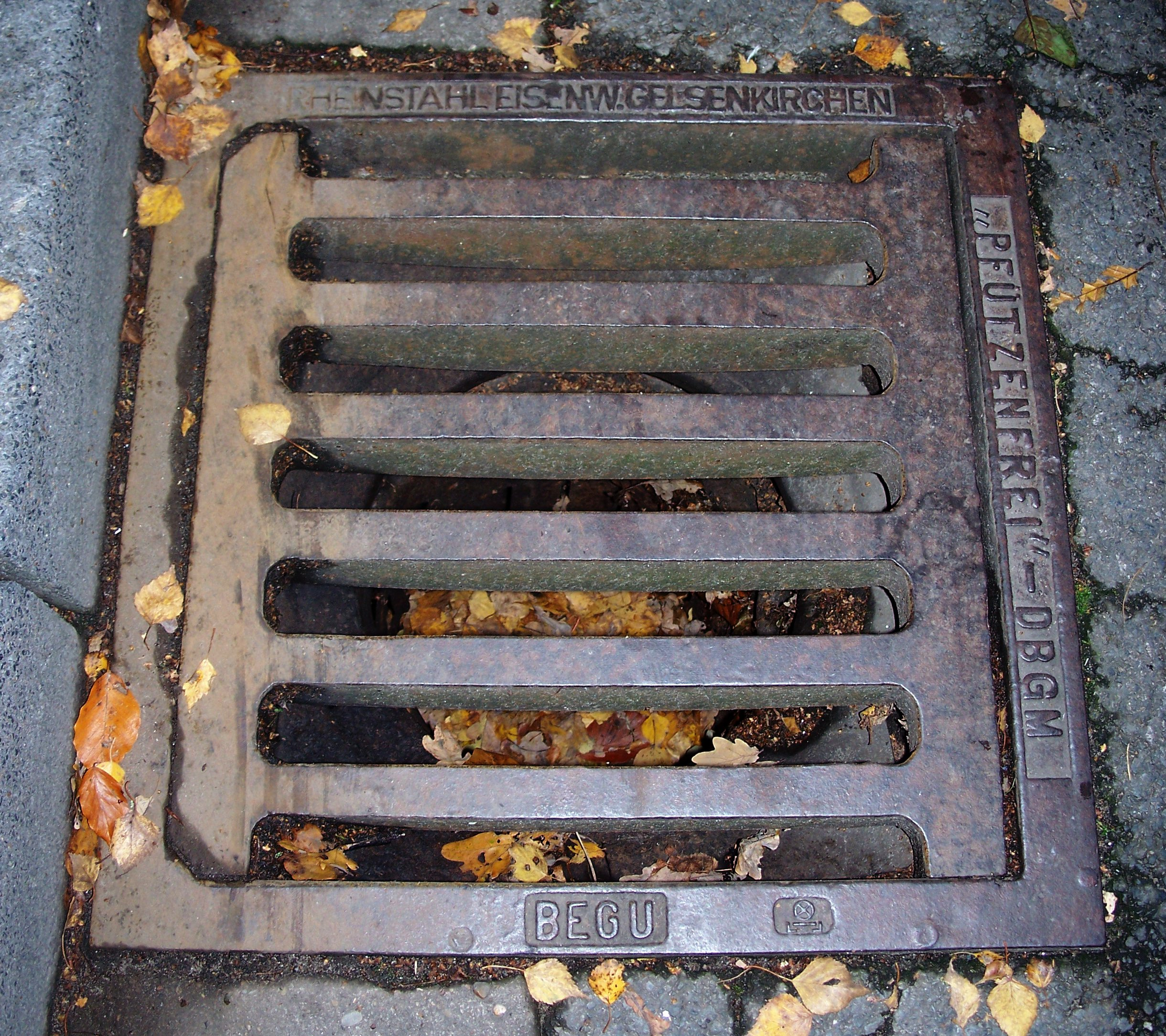 road gully, manufactured by the Rheinstahl Eisenwerke Gelsenkirchen, Germany, 1963